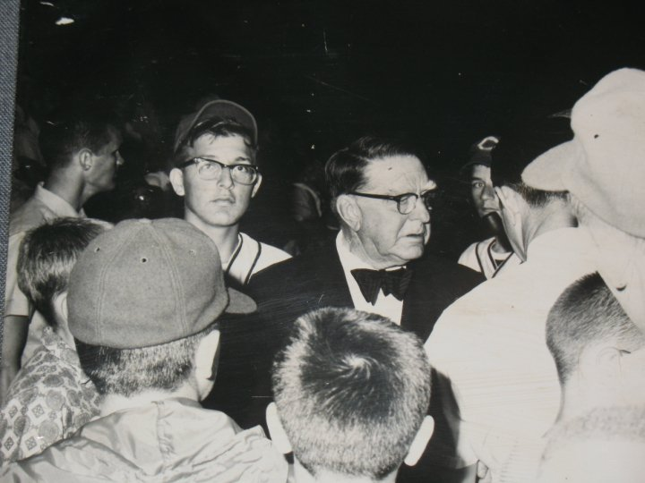 Dwight Rickey_and_Branch_near_Cincinnati_stadium in the late 50's early 60's.